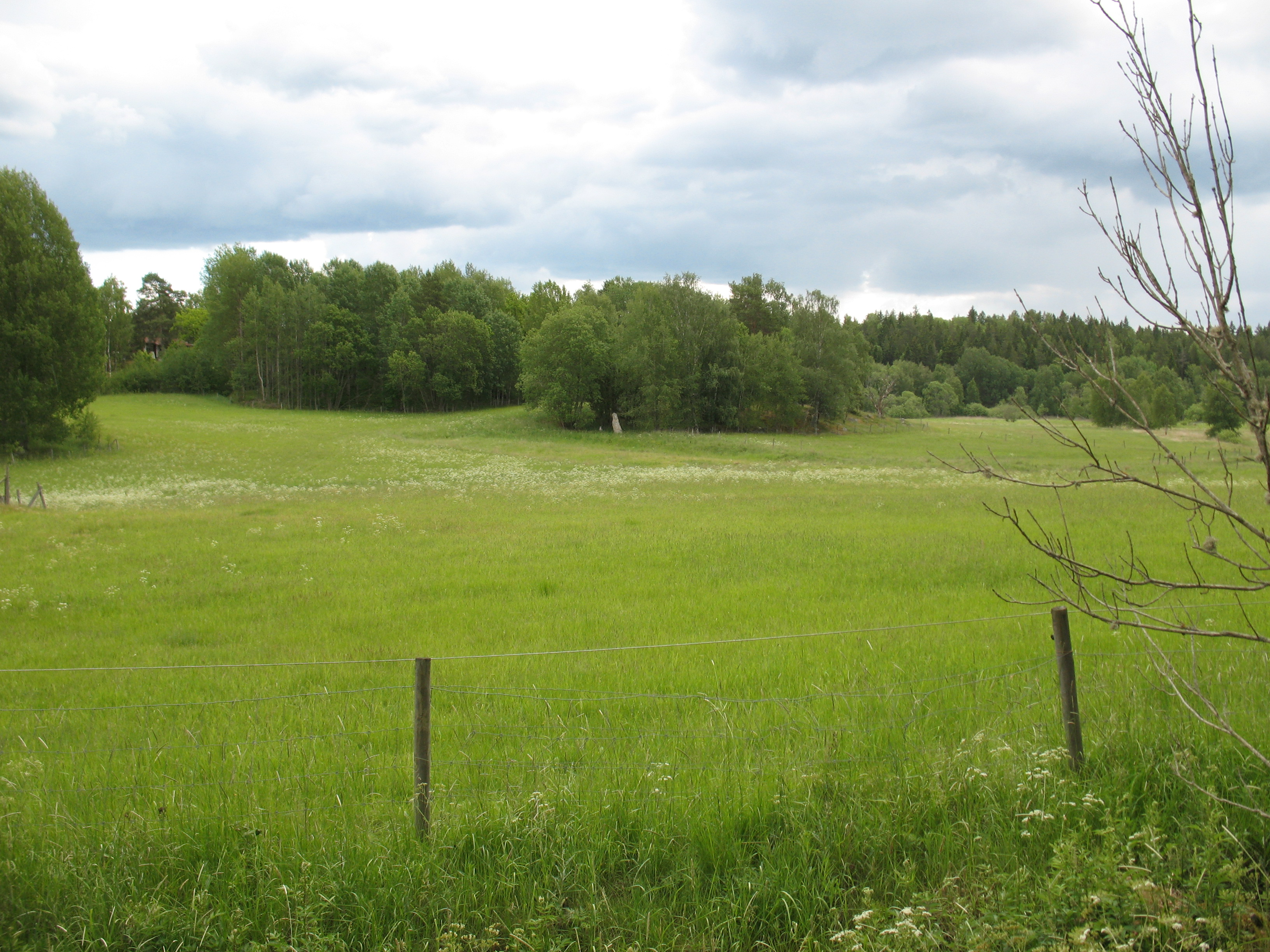 meadow